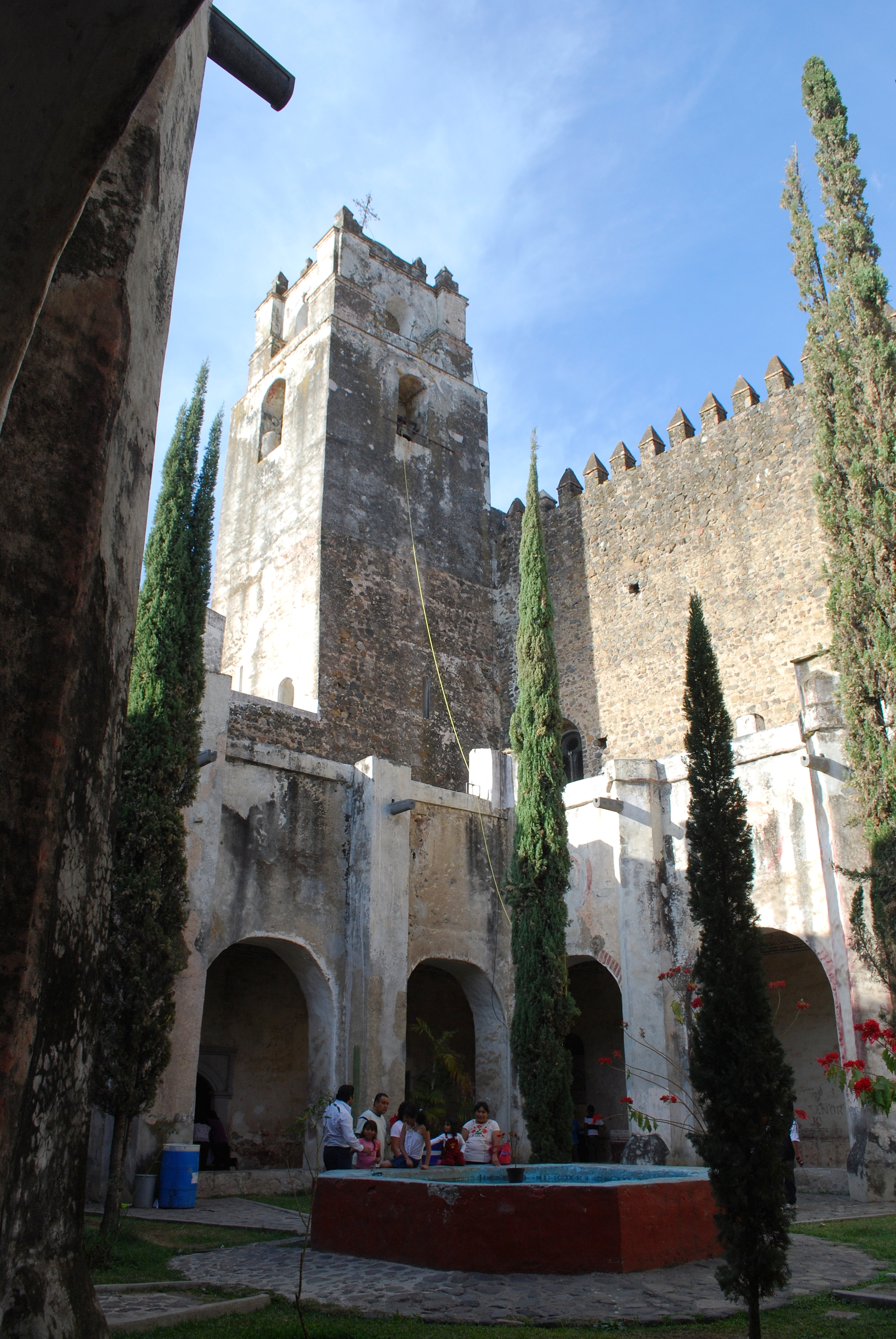 Cloister with view of bell tower at the San Juan Bautista monastery in Yecapixtla, Morelos, Mexico